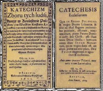 Racovian Catechism, cover, pol-1605, lat-1609